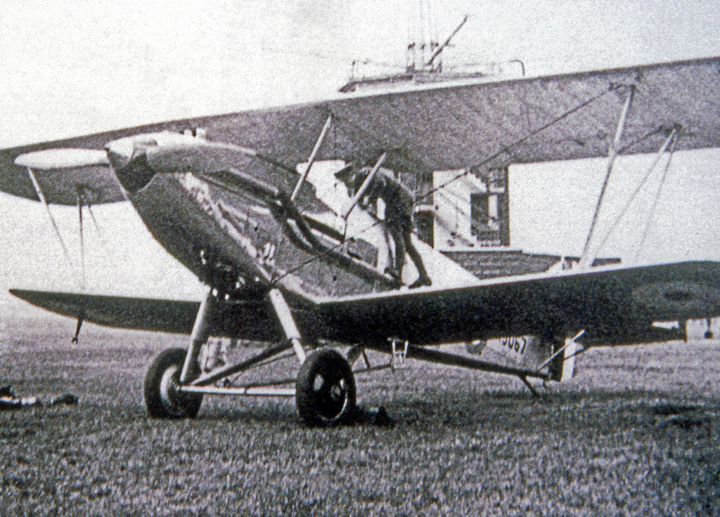 Hawker Audax K3067 of No. 26 Squadron Royal Air Force at Manchester Barton in 1934